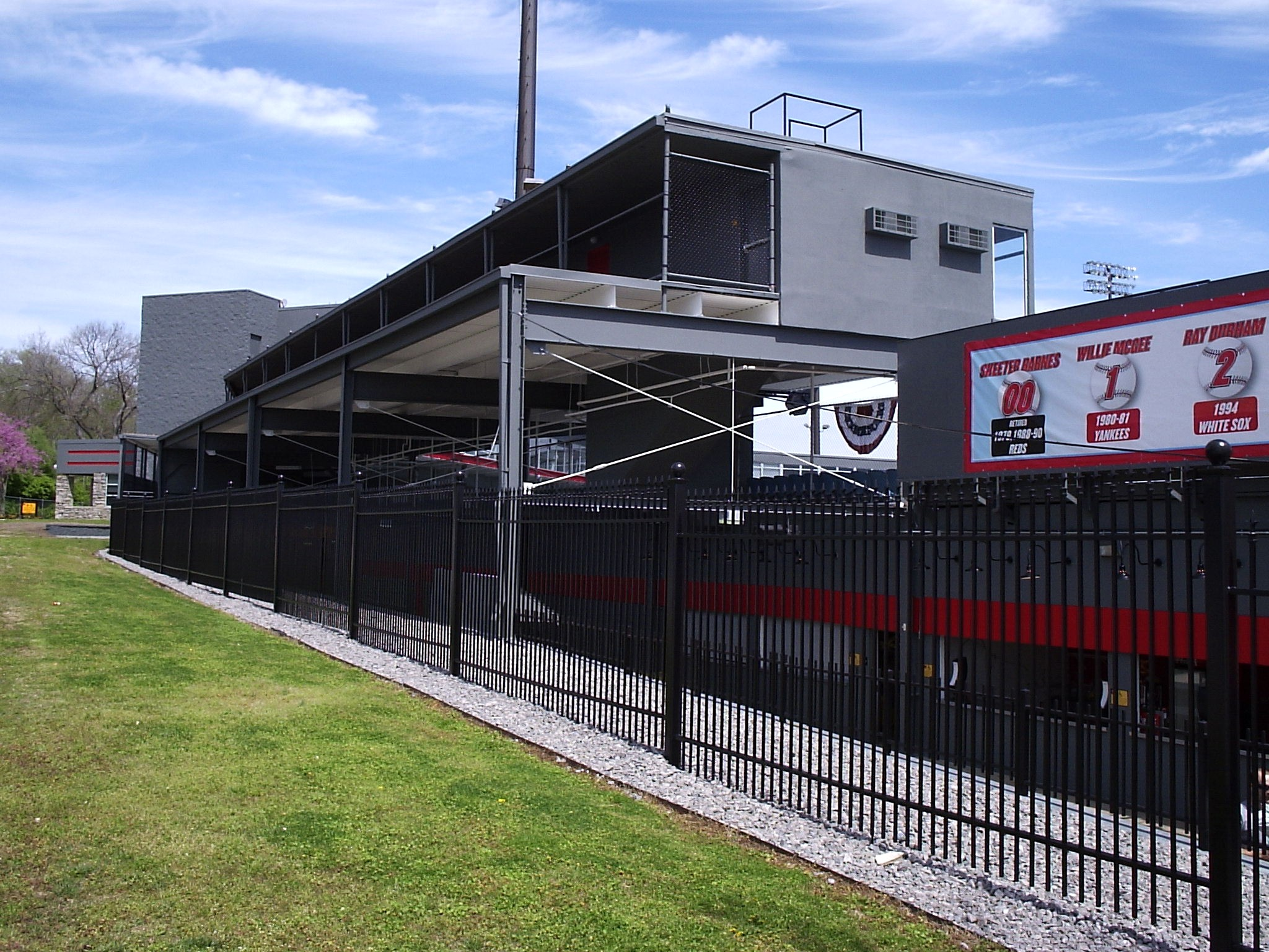 A view of the concourse from outside of Greer Stadium